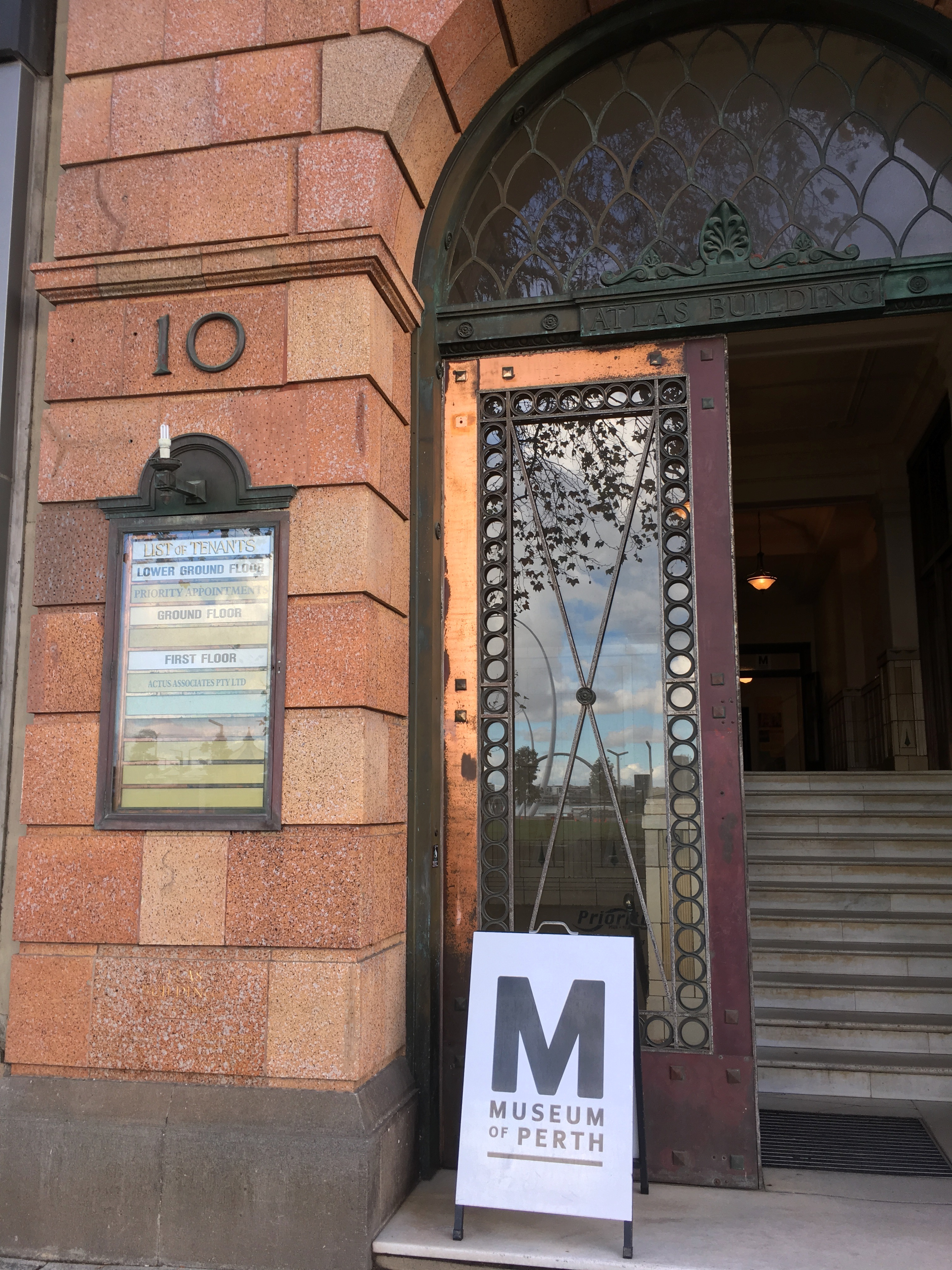 Atlas Building, The Esplanade, Perth, Western Australia, front entrance and signage